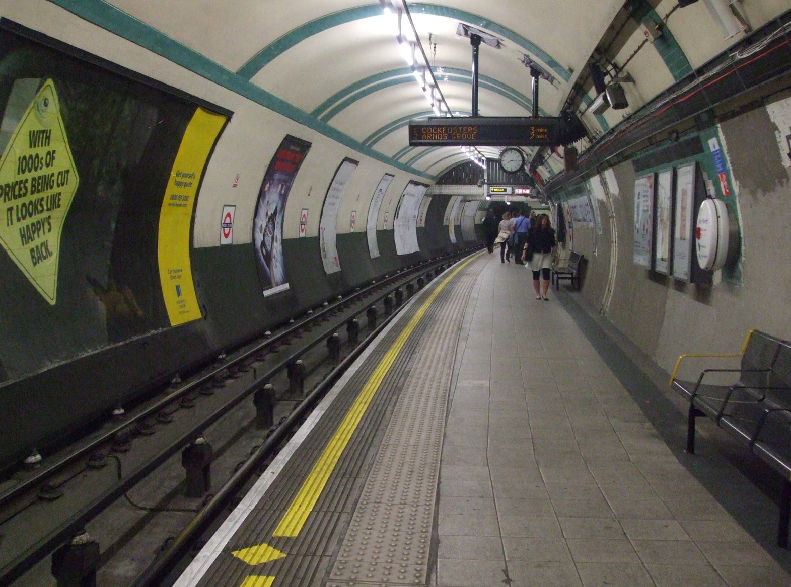 Russell Square tube station eastbound platform looking west. Undergoing refurbishement as of August 2008.